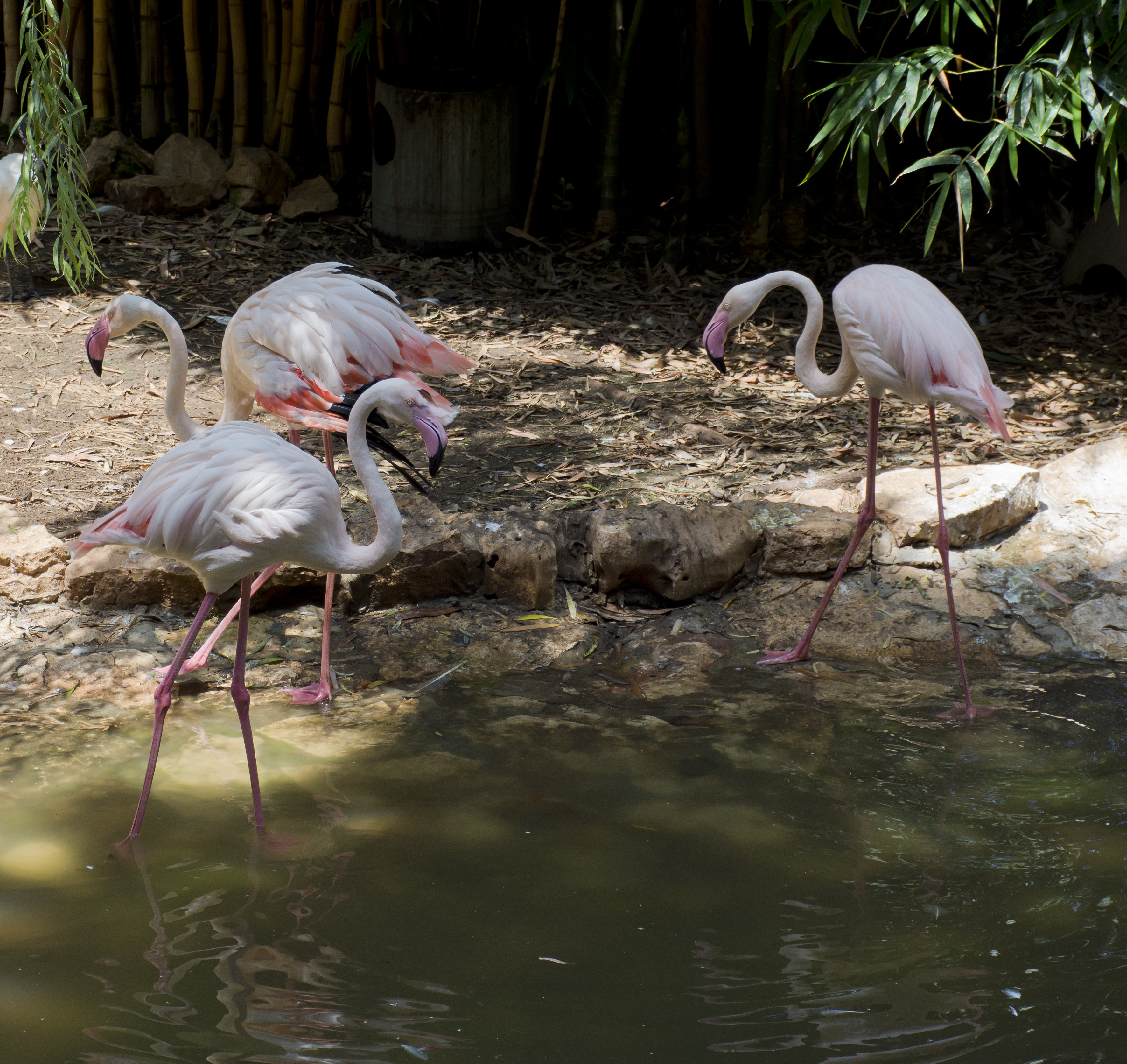 Haifa Educational Zoo, Haifa, Israel